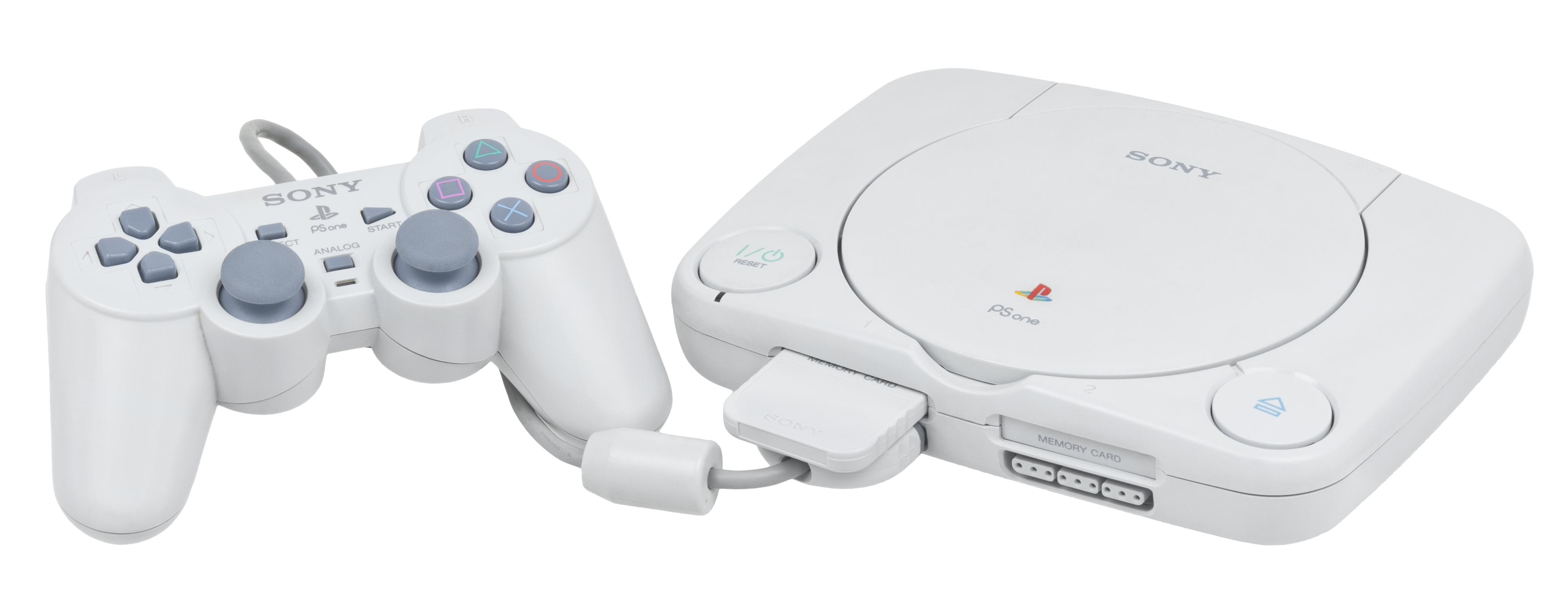 A PSone game console shown with matching controller and memory card. The PSone was re-design of the original PlayStation and much smaller in size.